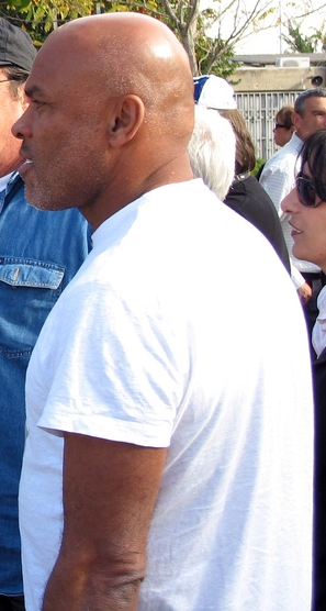 Rifaat Turk, a former Israeli football player, deputy mayor of Tel Aviv in Israel, at the funeral of Eli Mohar, 2006